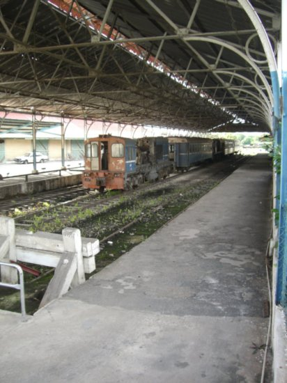 The interior of Kingston Railway Station taken from the buffer end of the platform.